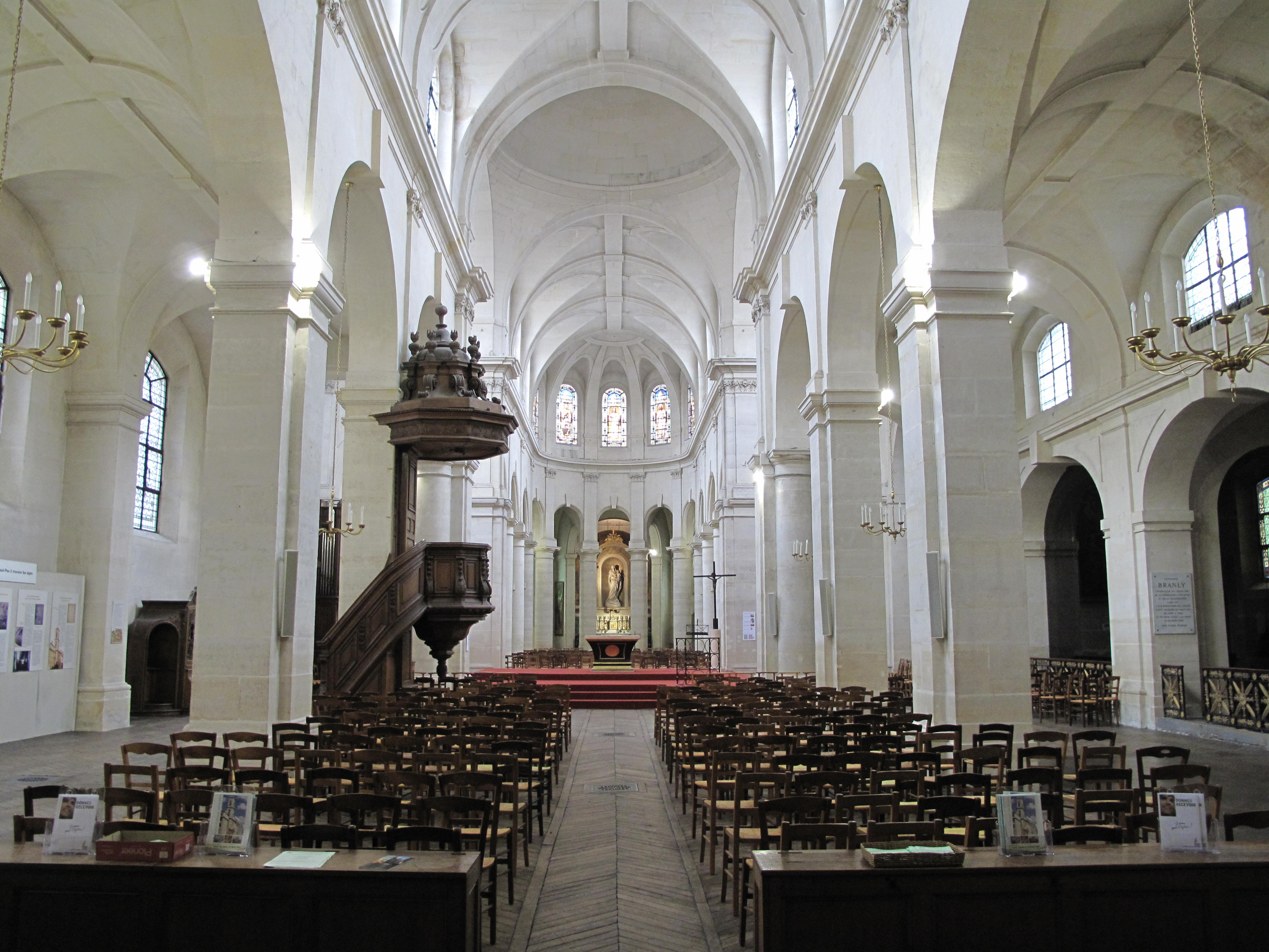 Nave of the church Saint-Jacques-du-Haut-Pas, Paris 5th arr.